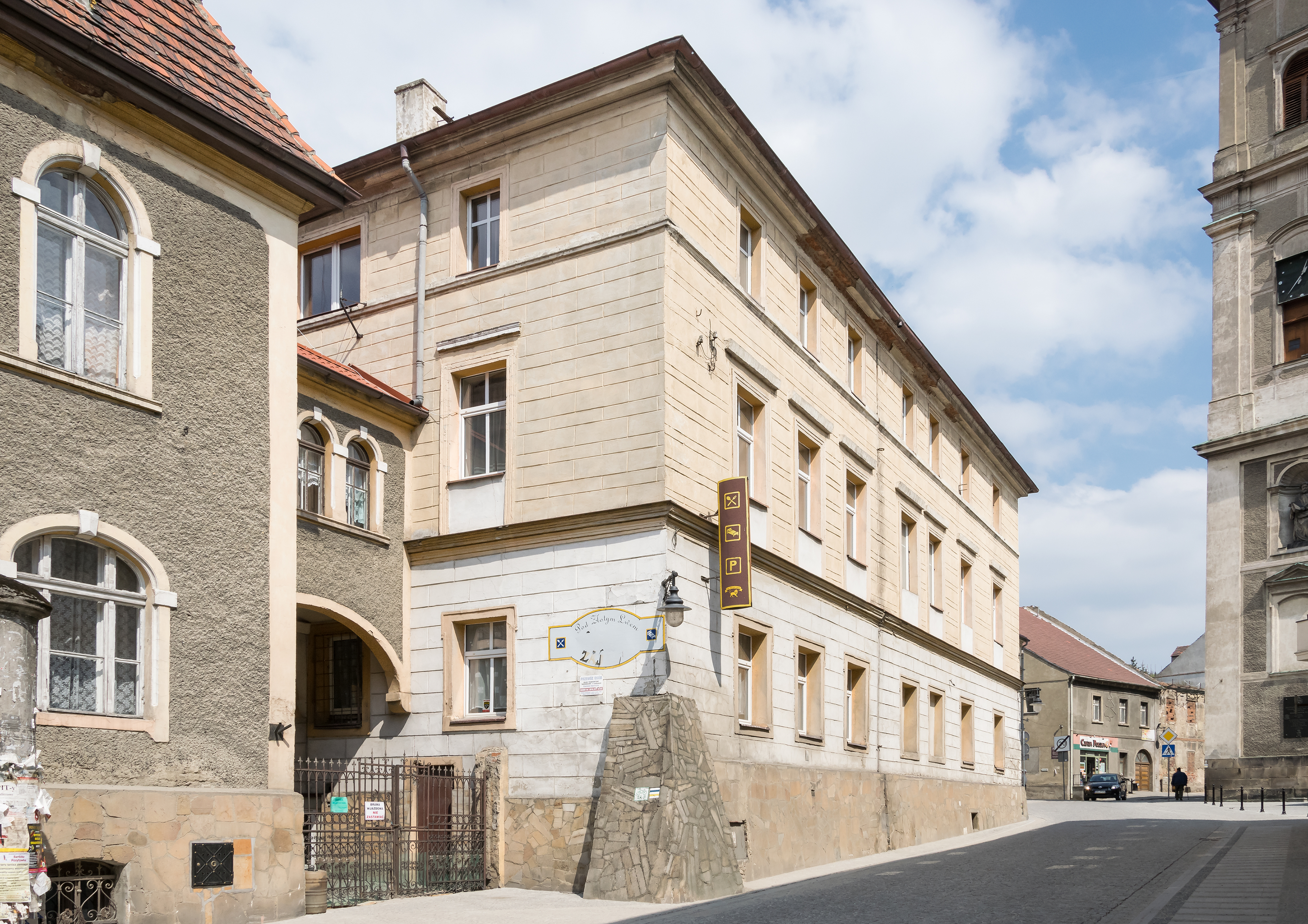 Pod Złotym Lwem inn in Bardo Wikidata has entry Q30084112 with data related to this item.